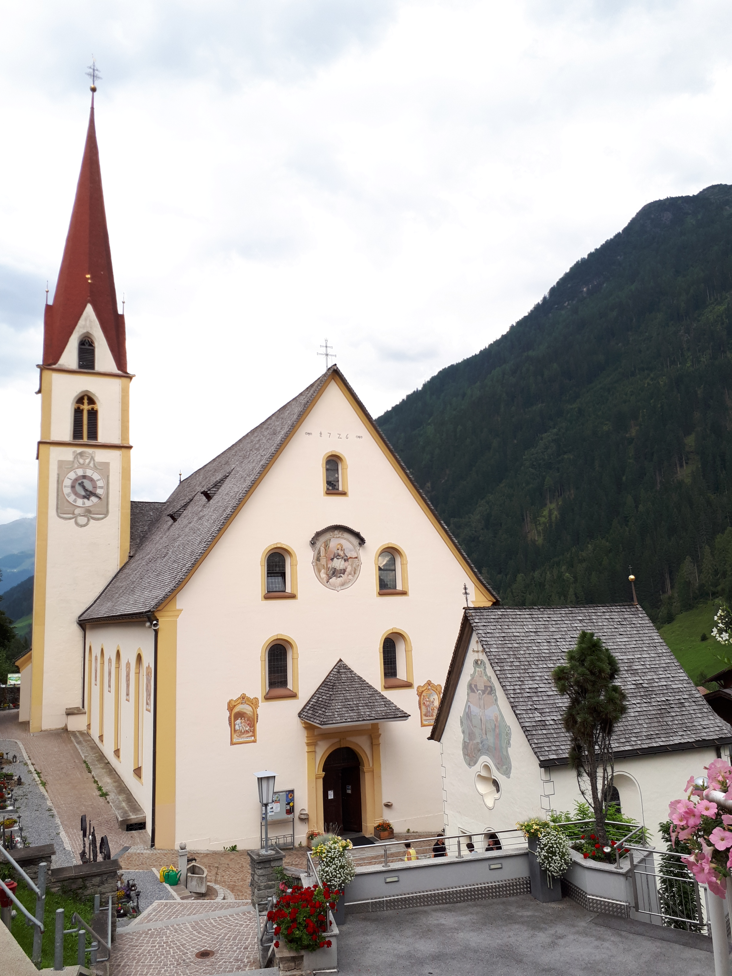 Saint Anthonyius Church Kappl